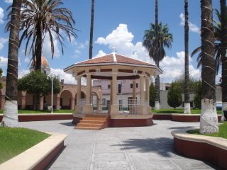 thw quiosco at sangas